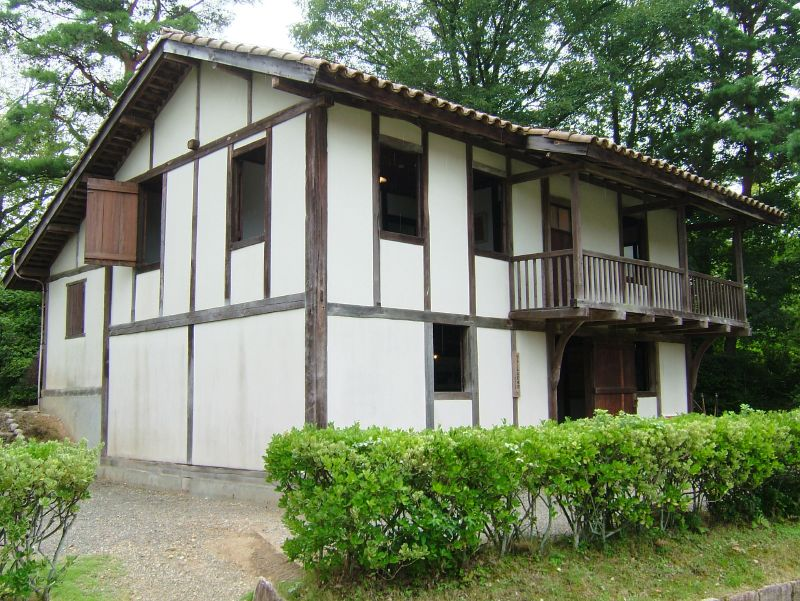 Originally from Sao Paulo, Brazil Built in 1919 From the Meiji Mura village museum, Japan.